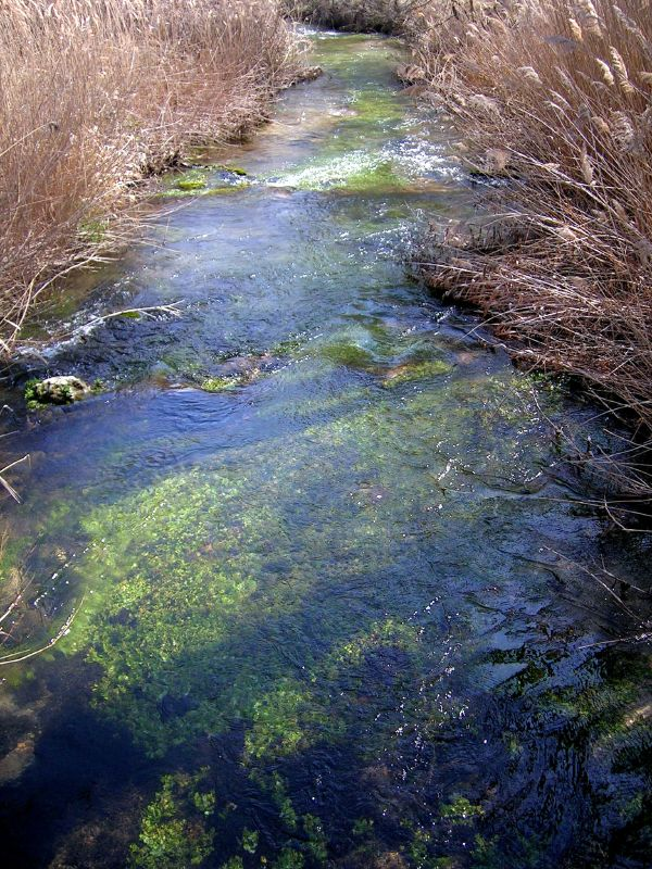 Dulce river in Aragosa, Guadalajara, Spain.